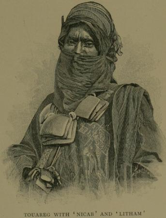 A Tuareg wearing the Tajelmust. French view of a Tuareg man from Timbuktu, c.1890s.